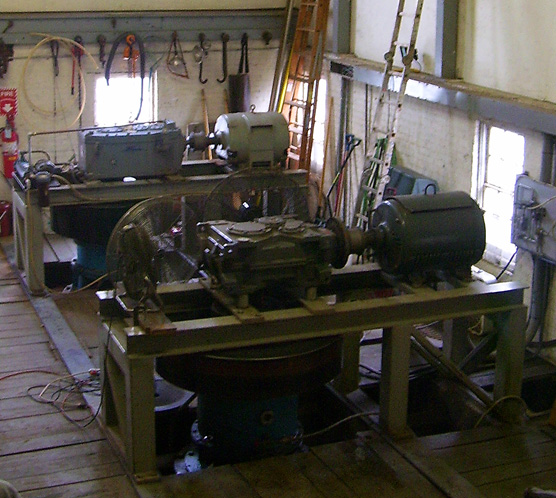 Photographed by Daniel Case 2006-12-07 with the permission of the Steinberger family